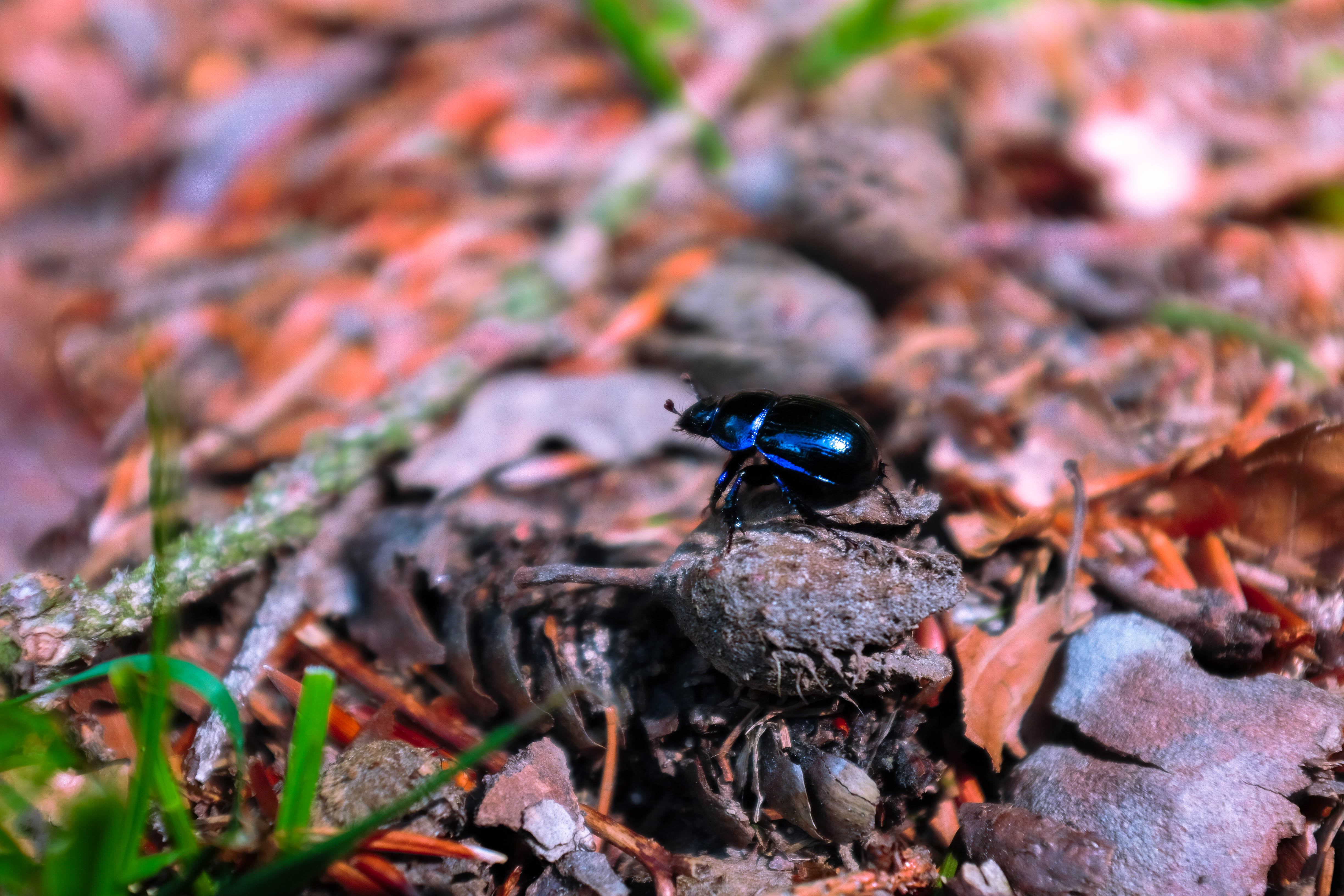 A picture from the side view of a dor beetle. It has metallic blue color under the sunlight.